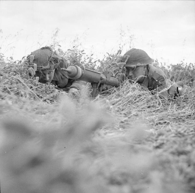 Allied Campaign in North West Europe the Battle For Caen June 1944 Rifleman Reg. Oates of Walthamstow and Sergeant James Woodward of Tottenham take up a position with a Piat mortar in a cornfield near Caen.